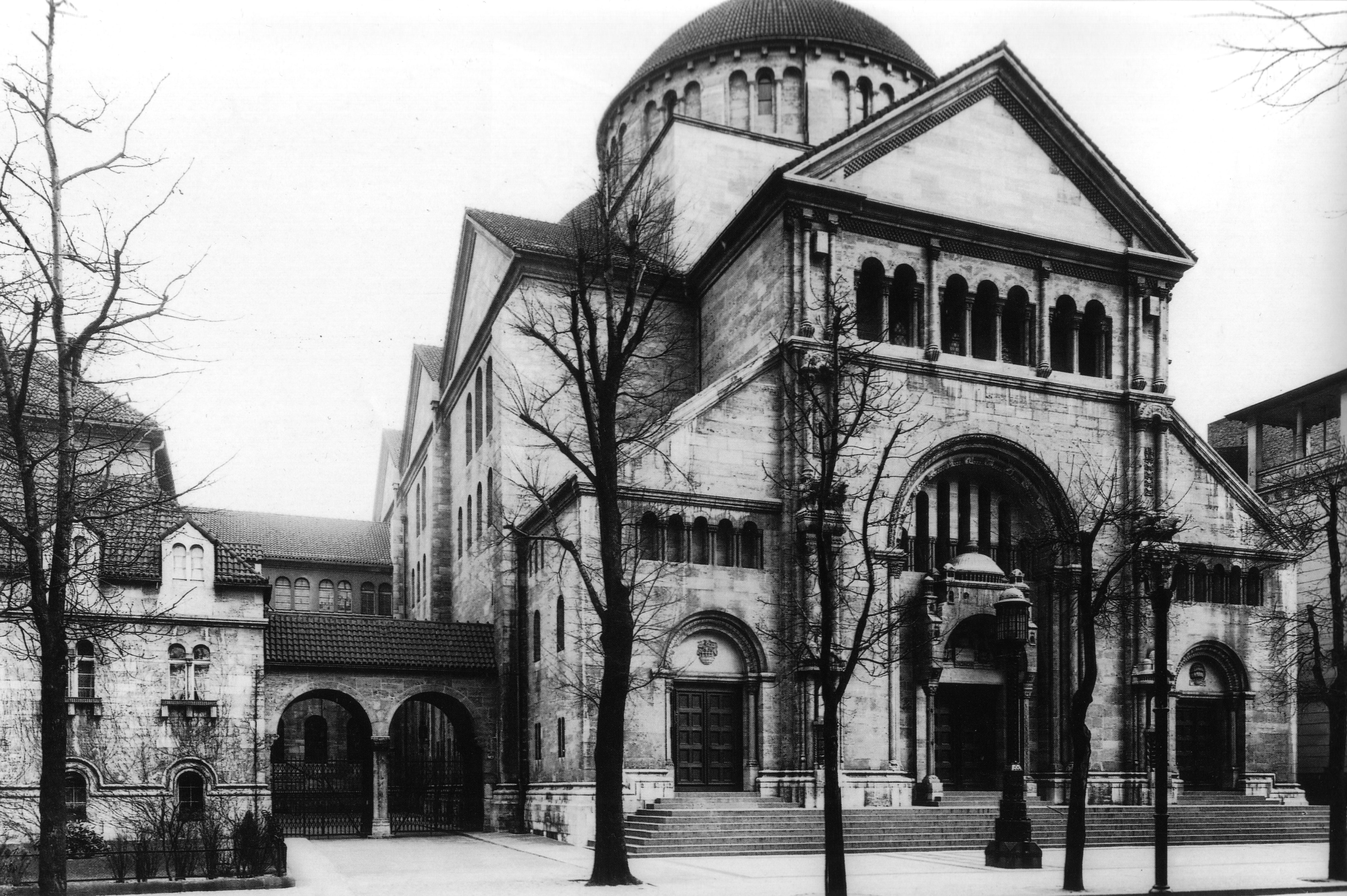 The synagogue on Fasanenstraße in Berlin-Charlottenburg before it was destroyed on Kristallnacht in 1938. The building was constructed 1910 to 1912 by the architect Ehrenfried Hessel. It was set alight in the night of November 9/10, 1938. Further damage followed in WWII and the ruins were removed from 1957 to 1958 to make room for a new Jewish community center. The only remaining parts are the main portal and a row of pilasters.